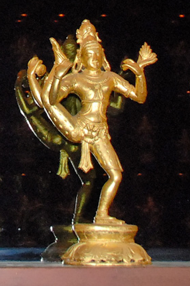 One of the 108 Tandava poses of Nataraja (dance of the god Shiva) at Kadavul Hindu Temple, on Kauai, Hawaii.